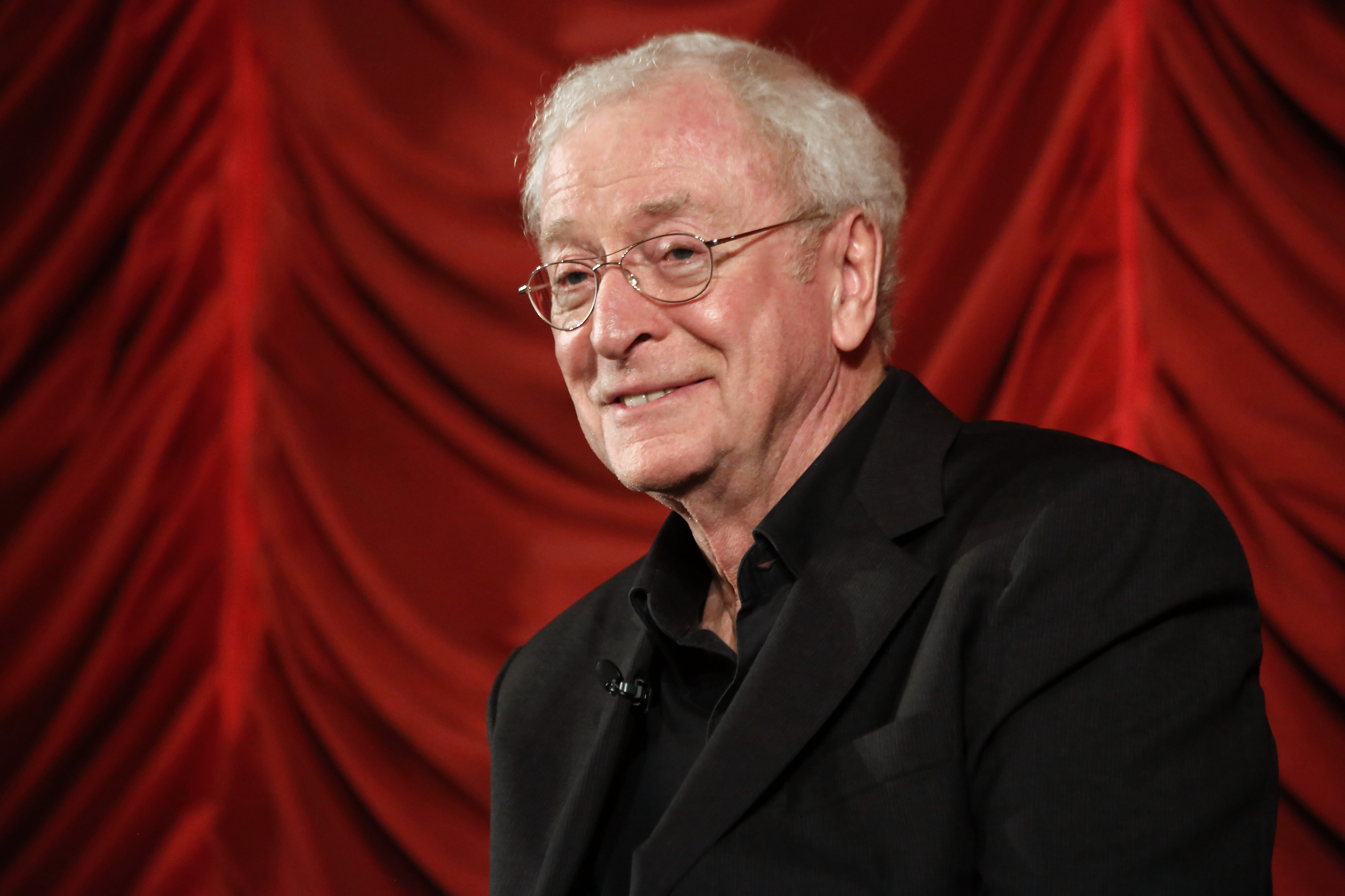 Michael Caine, guest at the Vienna International Film Festival 2012, Gartenbaukino.